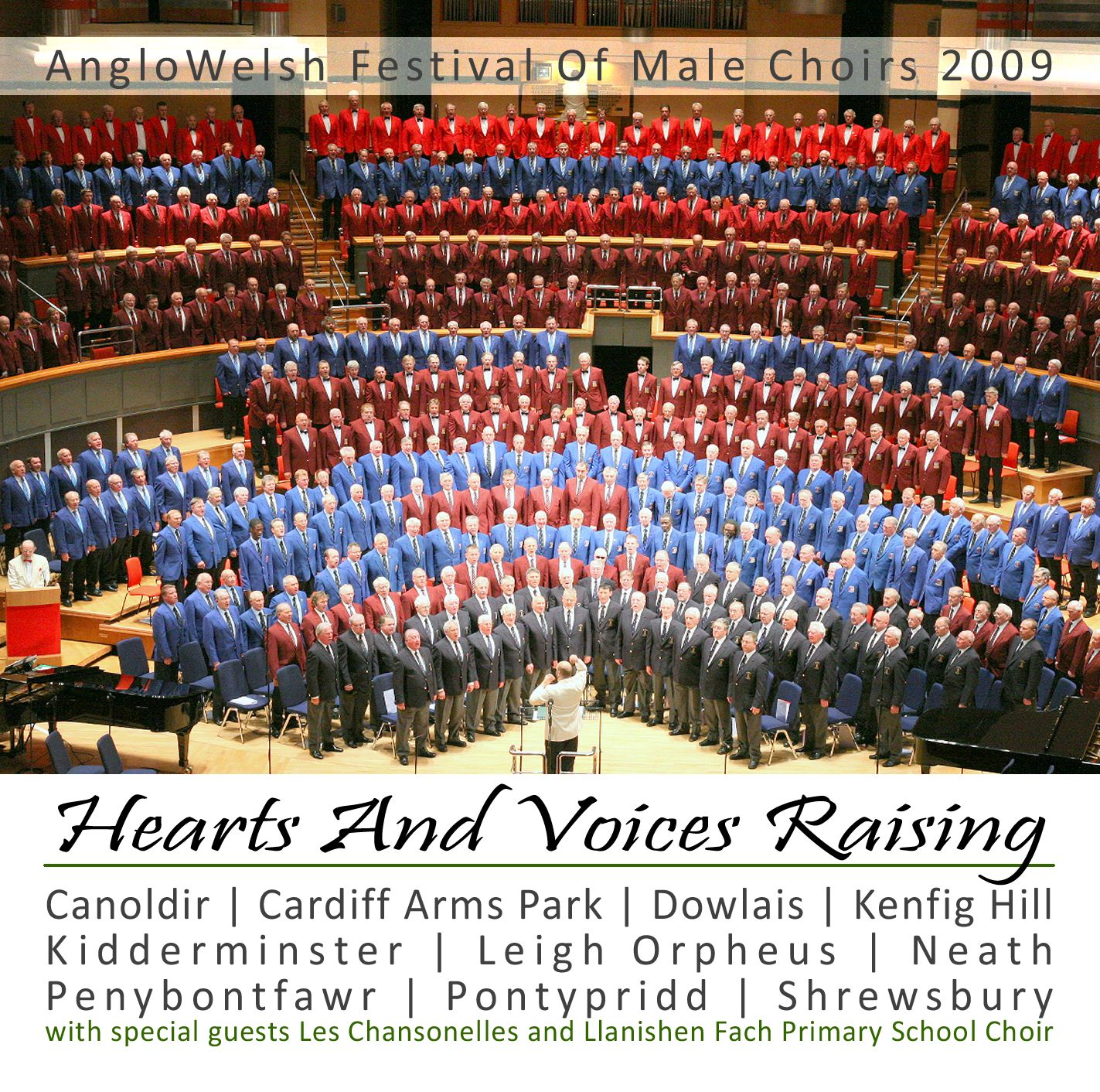 Cover of the Cardiff Arms Park Male Choir CD Hearts And Voices Raising